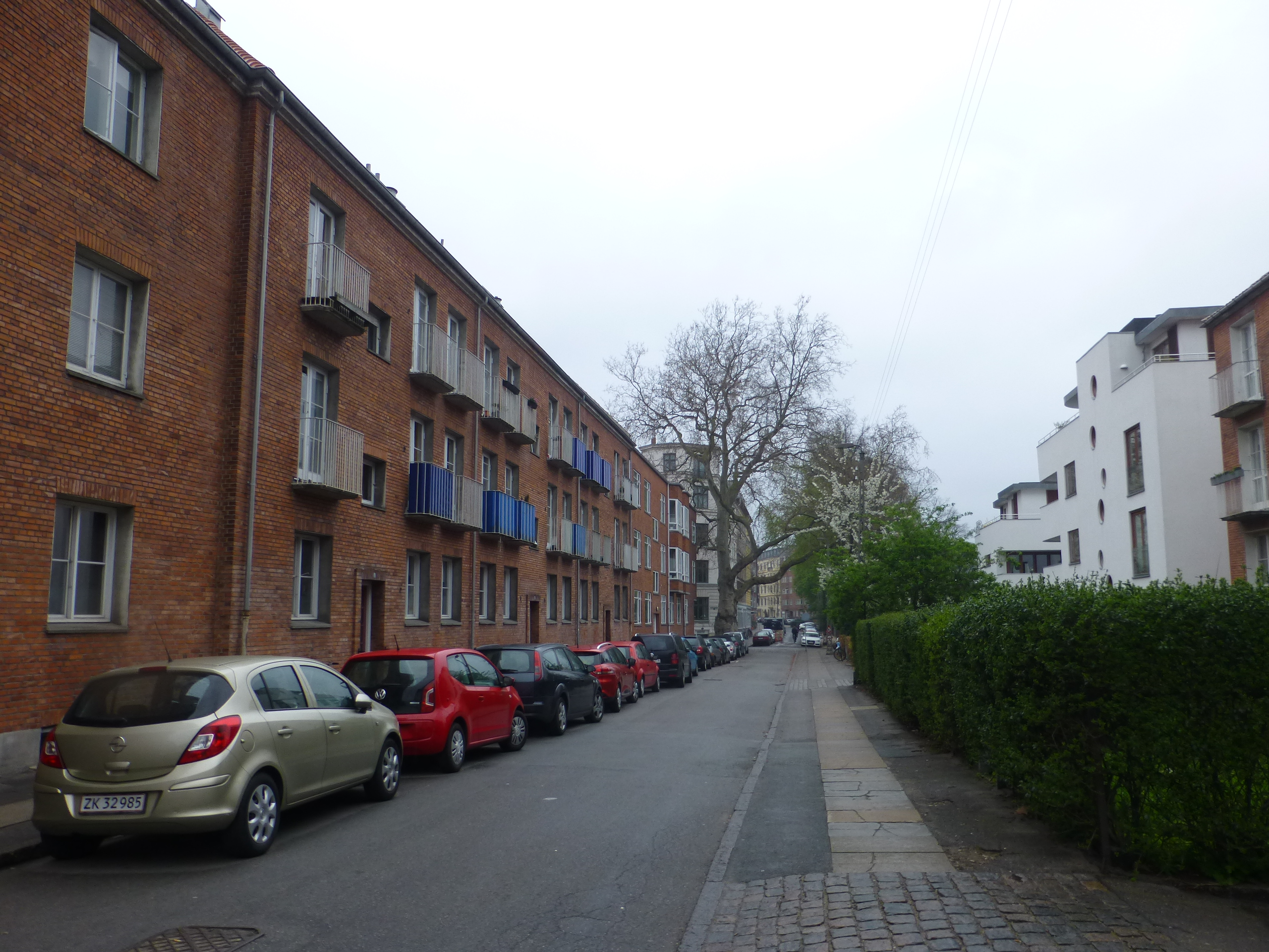 The street Saabyesvej in Østerbro in Copenhagen.